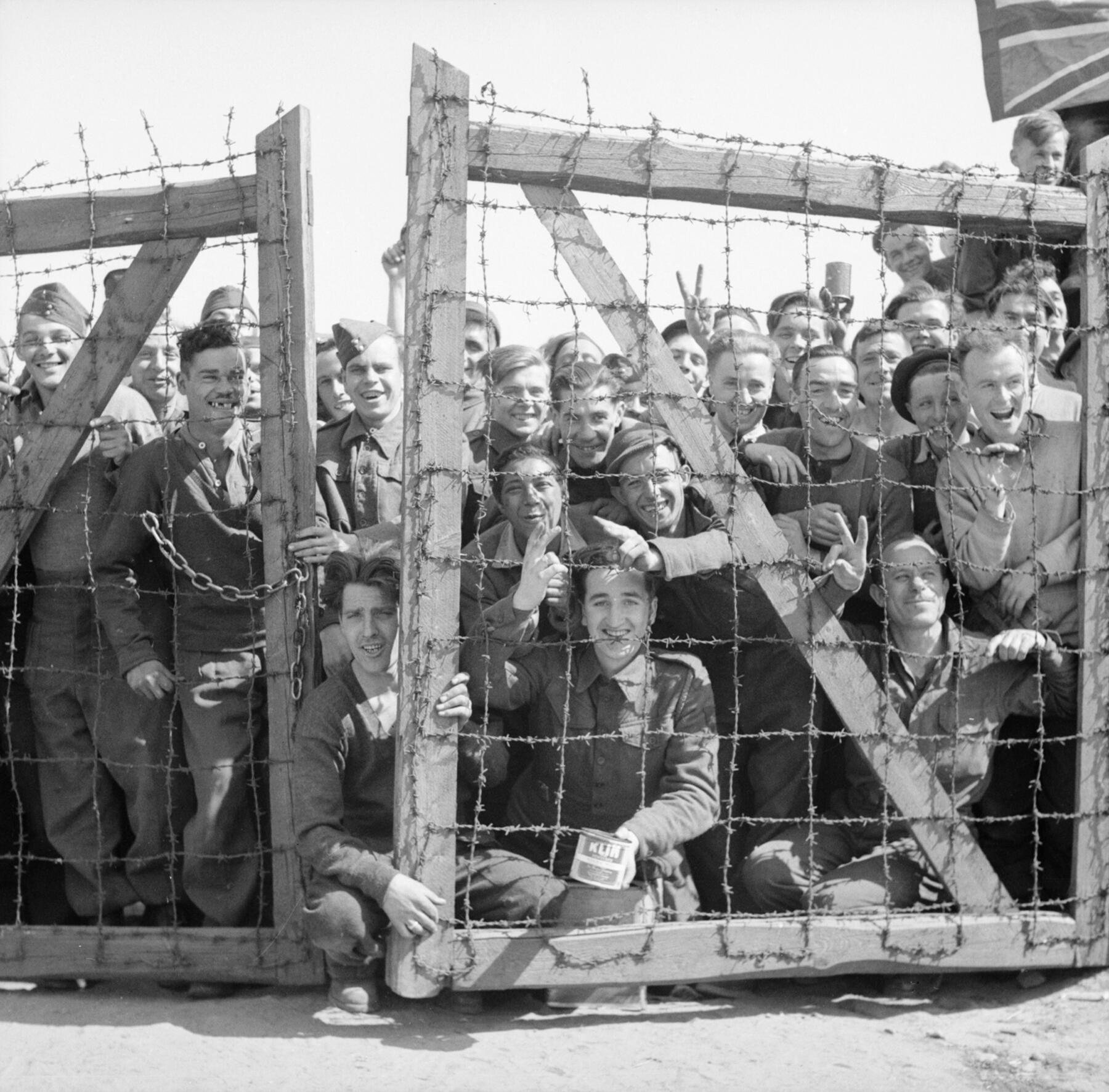 POWs at Stalag 11B at Fallingbostel in Germany welcome their liberators, 16 April 1945. POWs at Stalag 11B at Fallingbostel welcome their liberators, 16 April 1945.